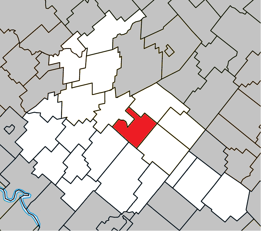 Location of Saint-Christophe-d'Arthabaska, Quebec within Arthabaska Regional County Municipality.